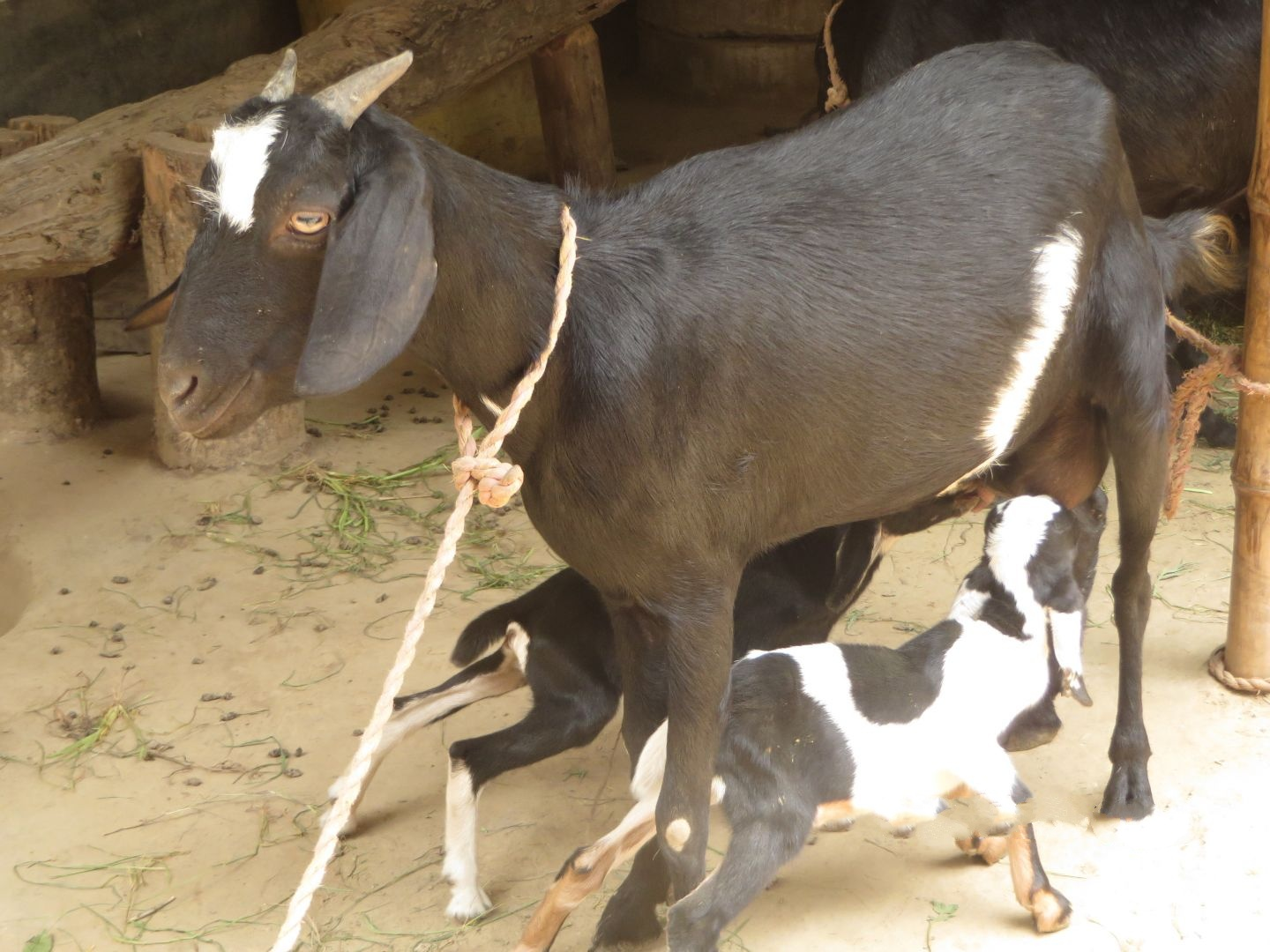 Goat kid in char of Sirajganj, Bangladesh